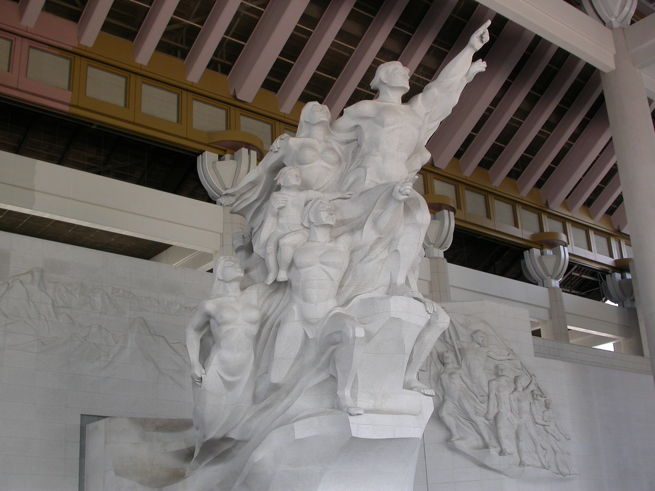 Independence Hall of Korea